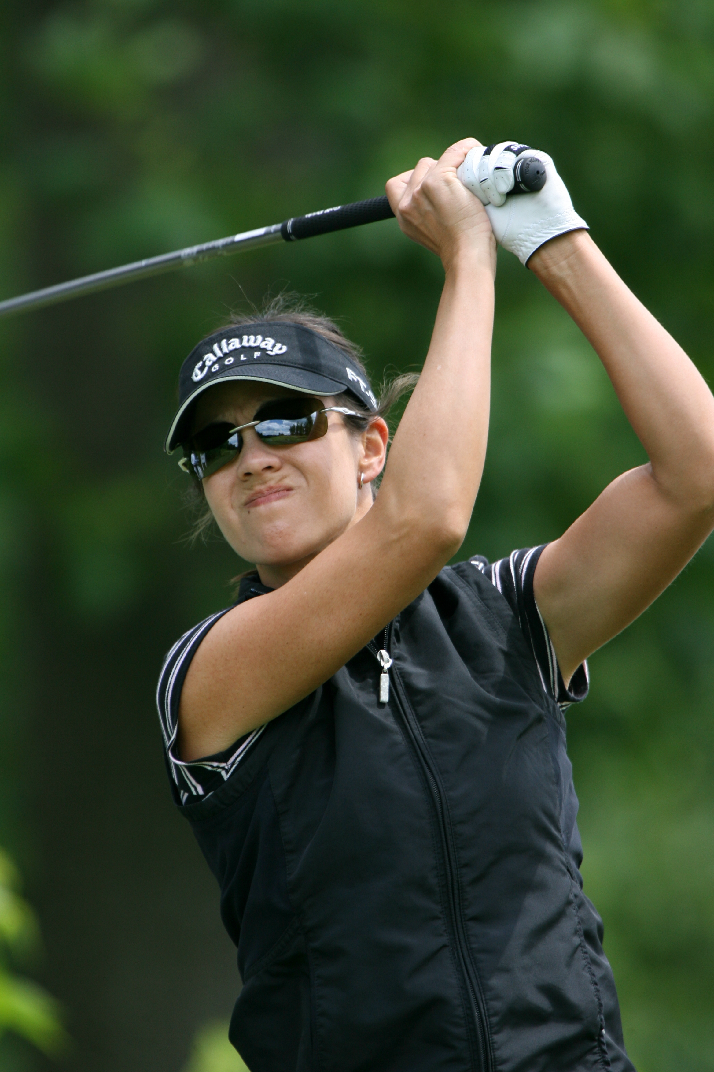 HAVRE DE GRACE, MD - JUNE 06: Leta Lindley (USA) during practice before 2007 LPGA Championship held at Bulle Rock Golf Course, on June 6, 2007 in Havre de Grace, Maryland. (Photo by Keith Allison)